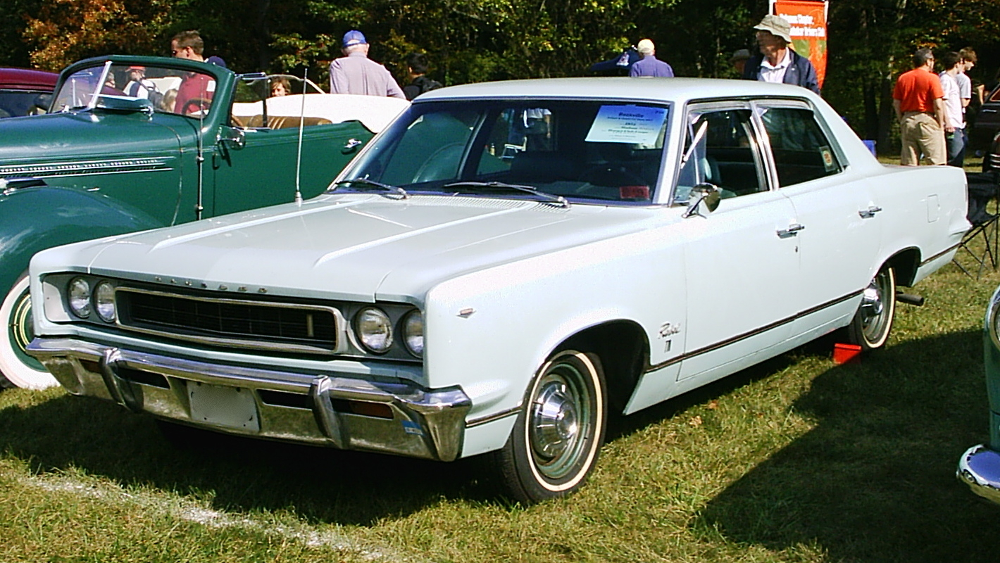 1967 Rambler Rebel 770, made by American Motors Corporation (AMC). An intermediate-sized four-door sedan. This car has the standard 290 CID (4.75 L) V8 engine and automatic transmission. This car is finished in "Alameda Aqua", Paint code P-34). Note: this was the last model year of the Rambler name on these models. Picture taken at the 2007 Rockville Antique and Classic Car Show held at the Rockville Civic Center Park in Maryland.